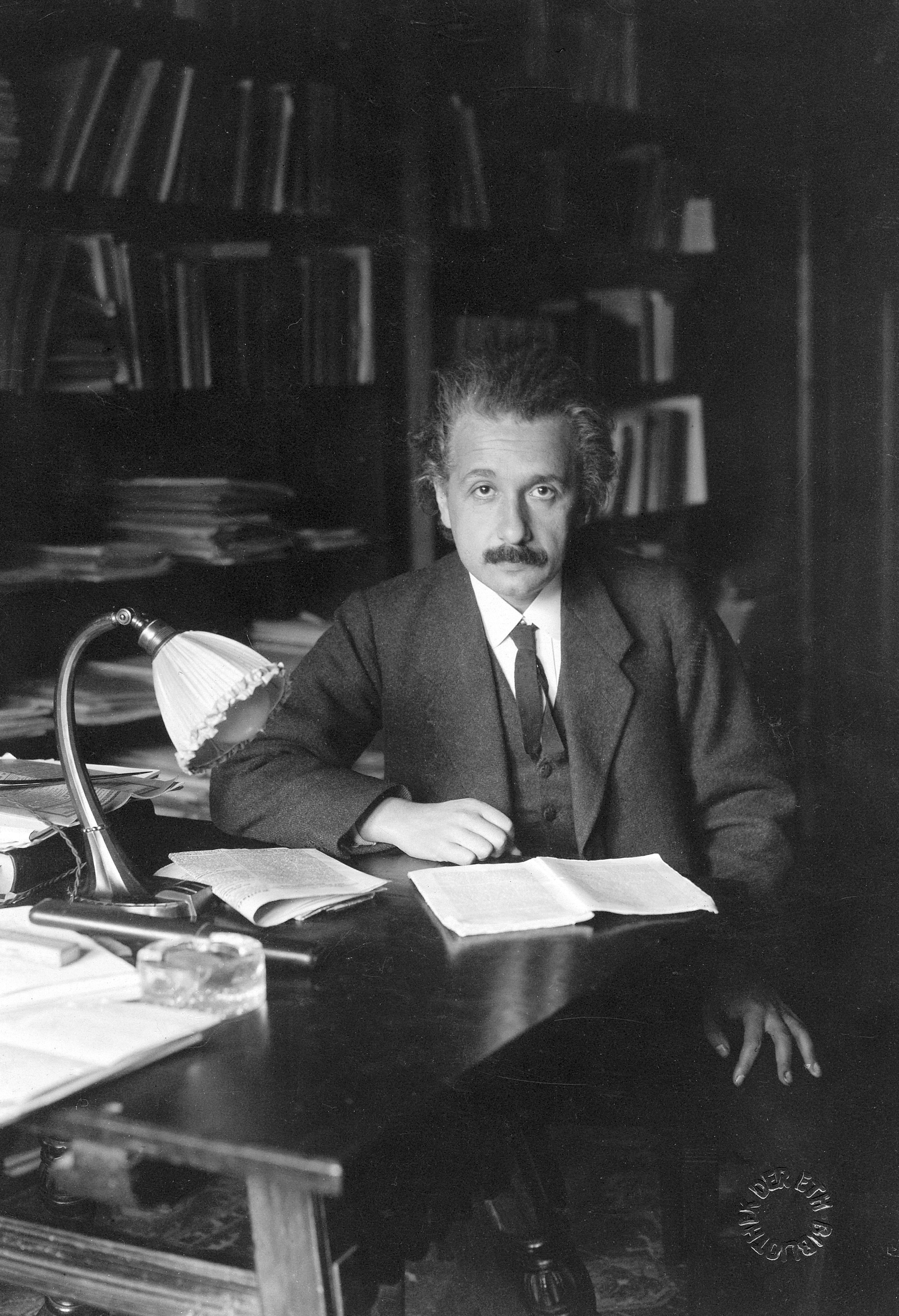 Photograph of Albert Einstein in his office at the University of Berlin, published in the USA in 1920.